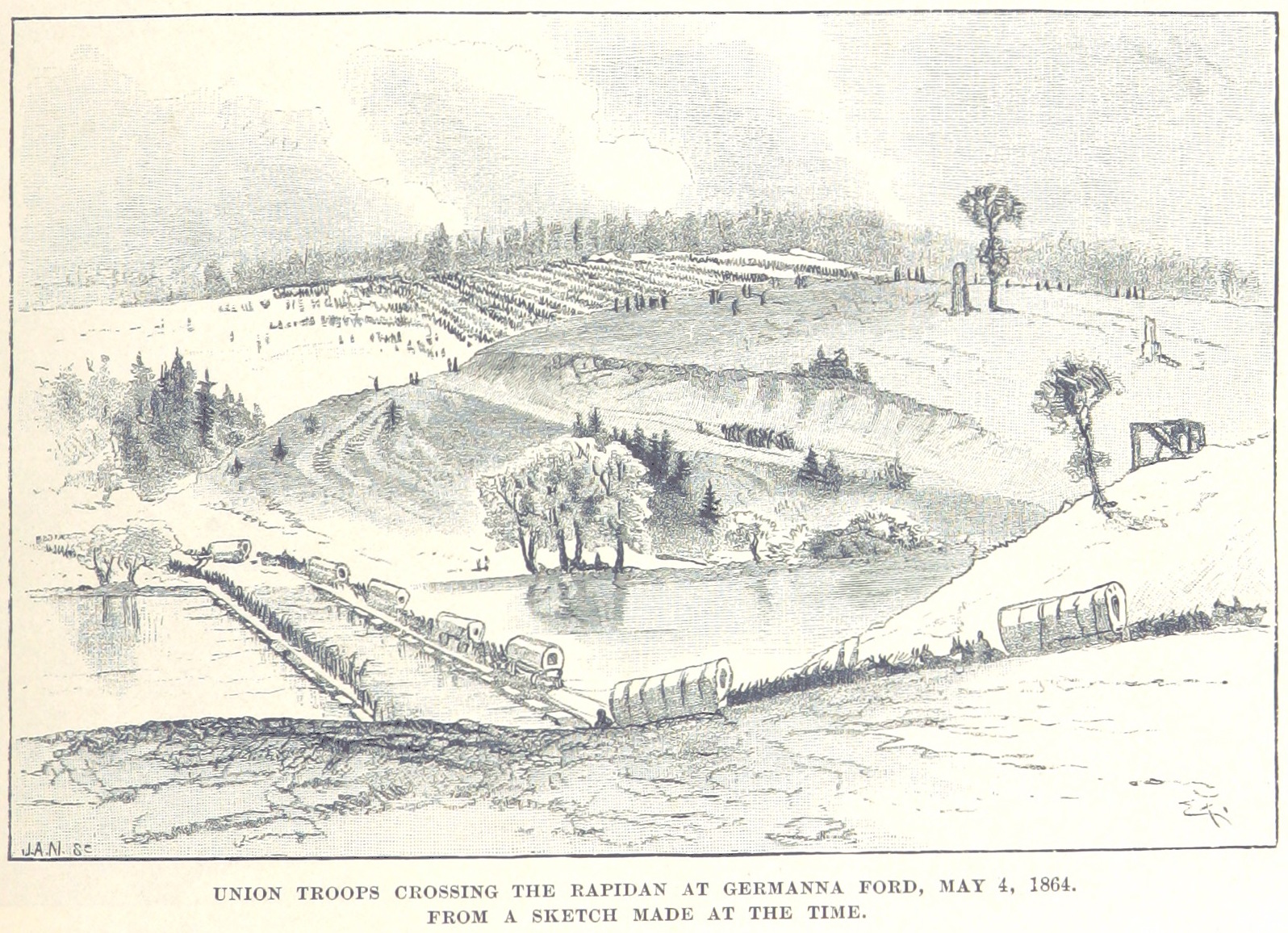 Union troops cross the Rapidan River at Germanna Ford prior to the Battle of the Wilderness